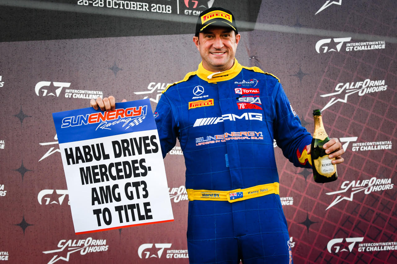 The SunEnergy1 Mercedes-AMG squad in action at Weathertech Raceway Laguna Seca at the Intercontinetal GT Challenge final round